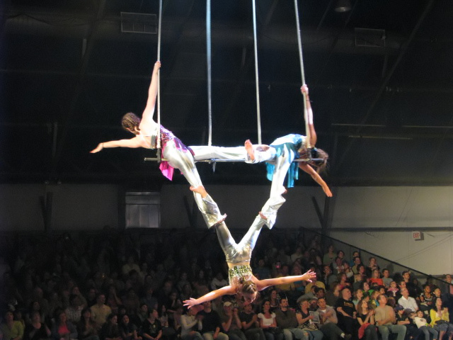 Young performers doing triple trapeze at Circus Juventas.